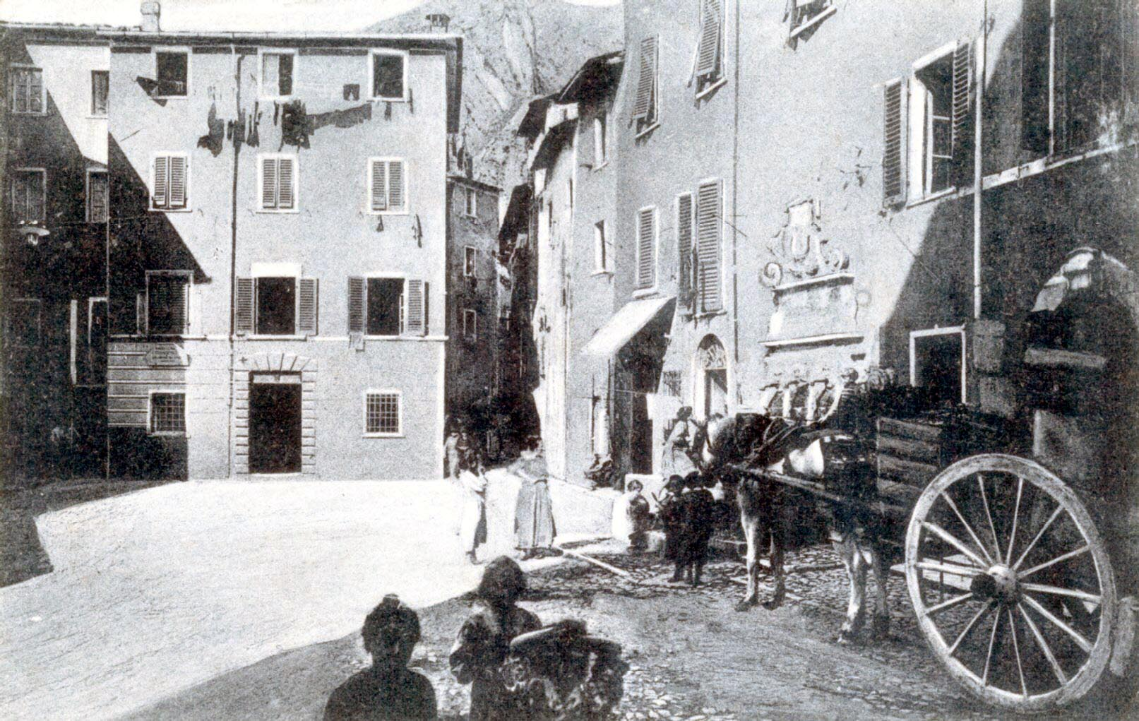 Piazza Umberto I Bedizzano inizio 1900